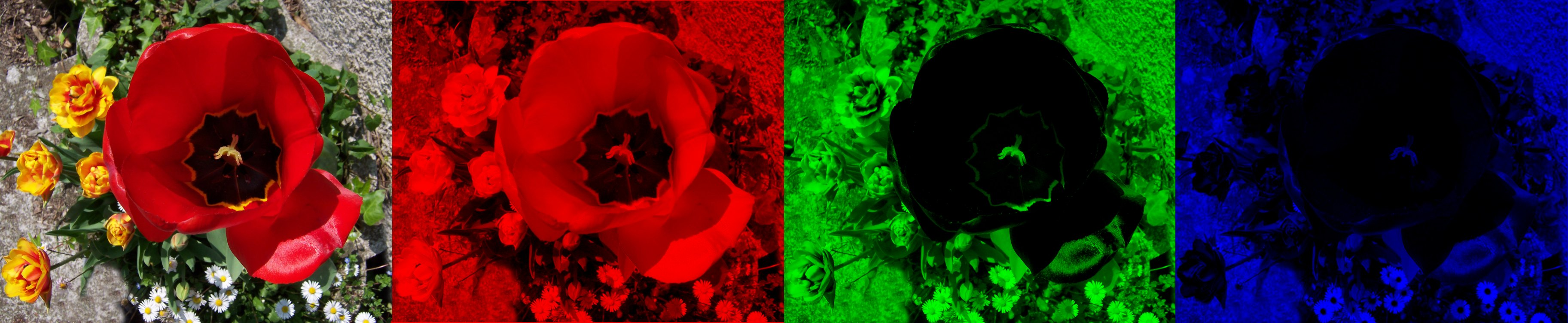 Additive color synthesis - RGB positives